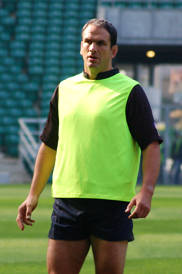 England Rugby Union Player Martin Johnson training session in twickenham stadium.